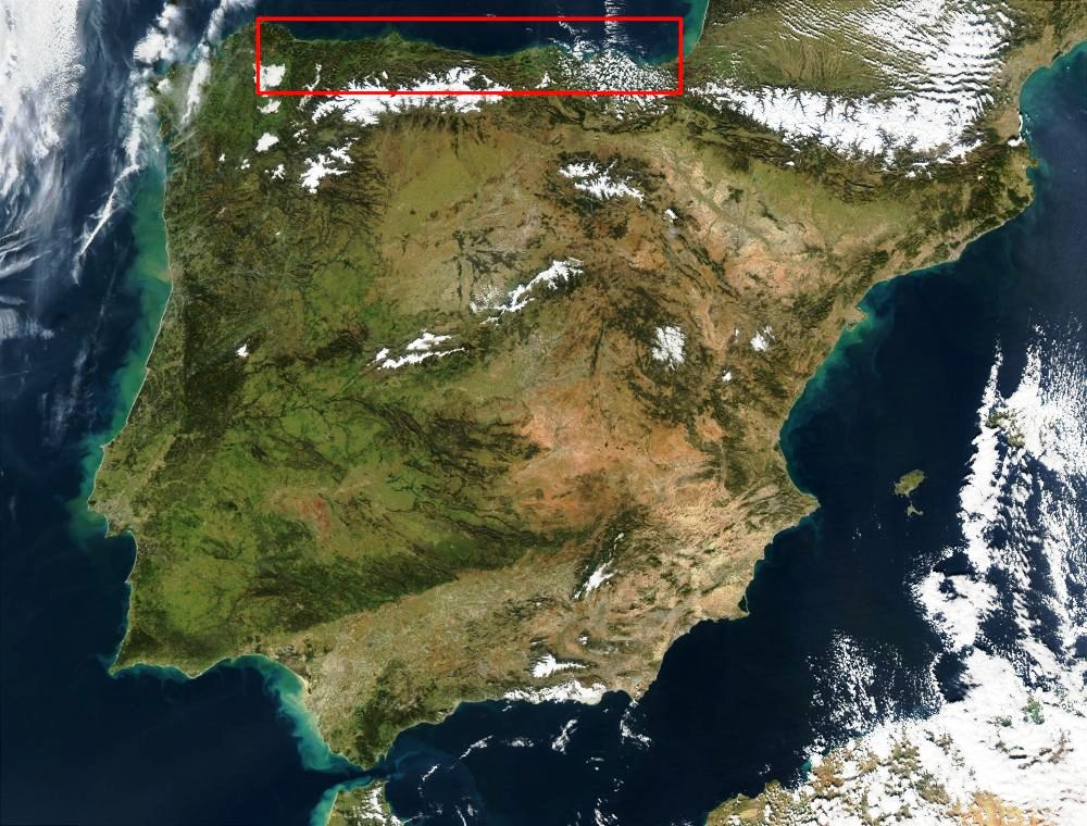 The red box indicates the Cantabrian Region. Satellite image of Spain in January 2003.